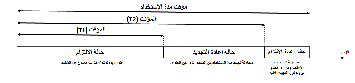 The life cycle of a DHCP client when renewing the addrese lease.